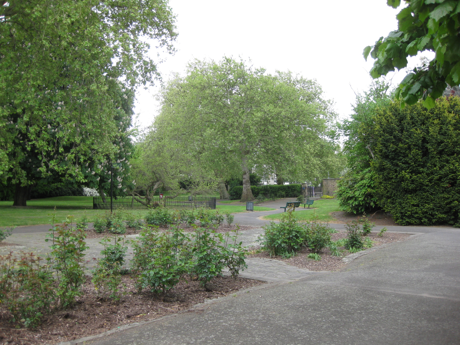 Sayes Court park; Deptford, London, England.